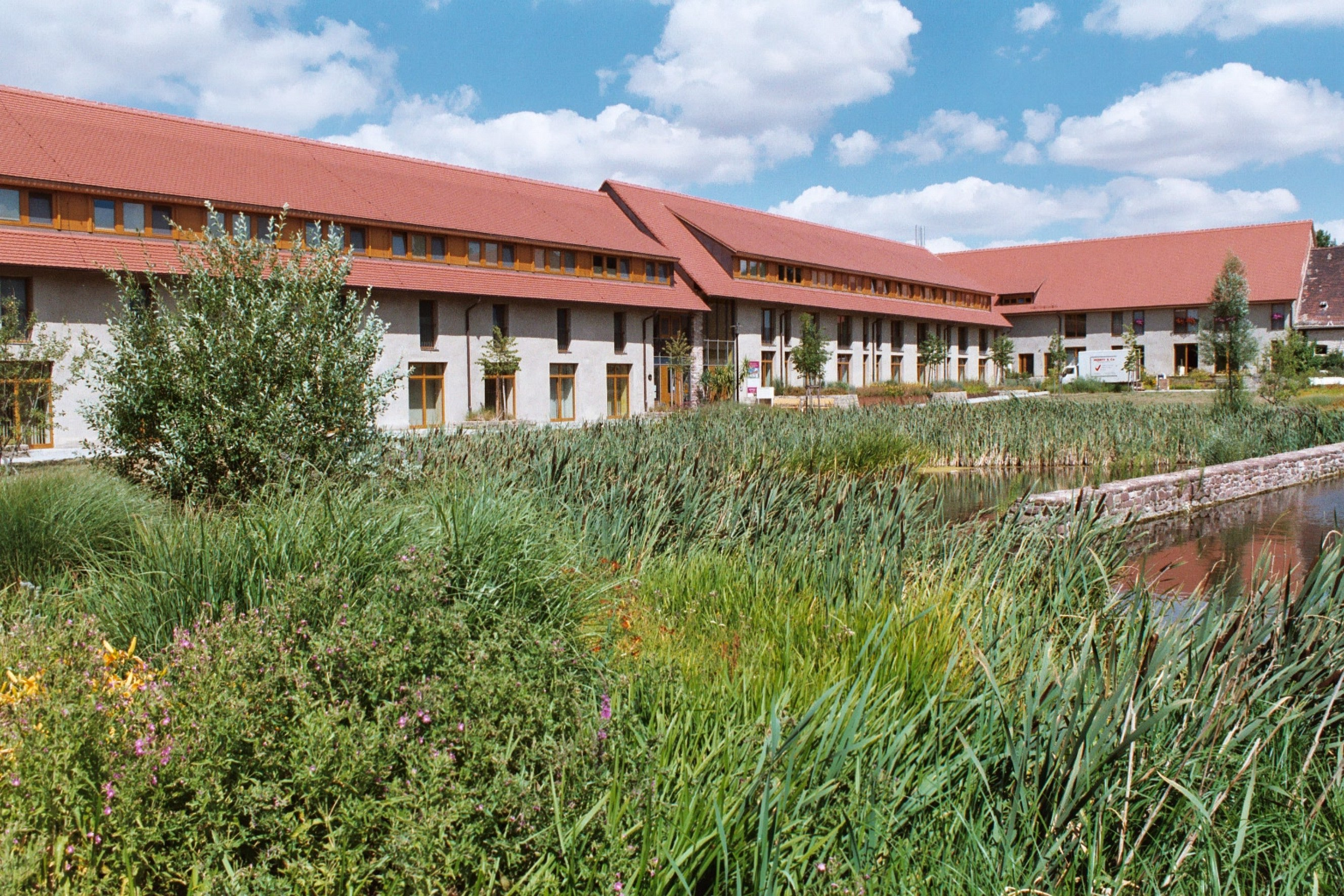 Helfta Convent (Lutherstadt Eisleben), houses for the nuns